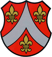 Coat of arms of Lilienfeld, Lower Austria